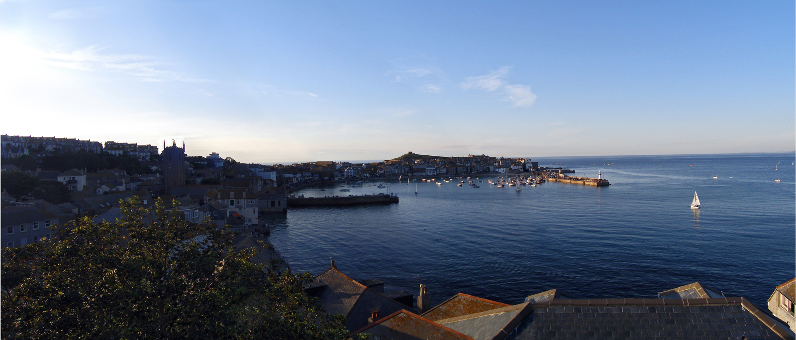 St-Ives from the Malakoff bus stop at high-tide.